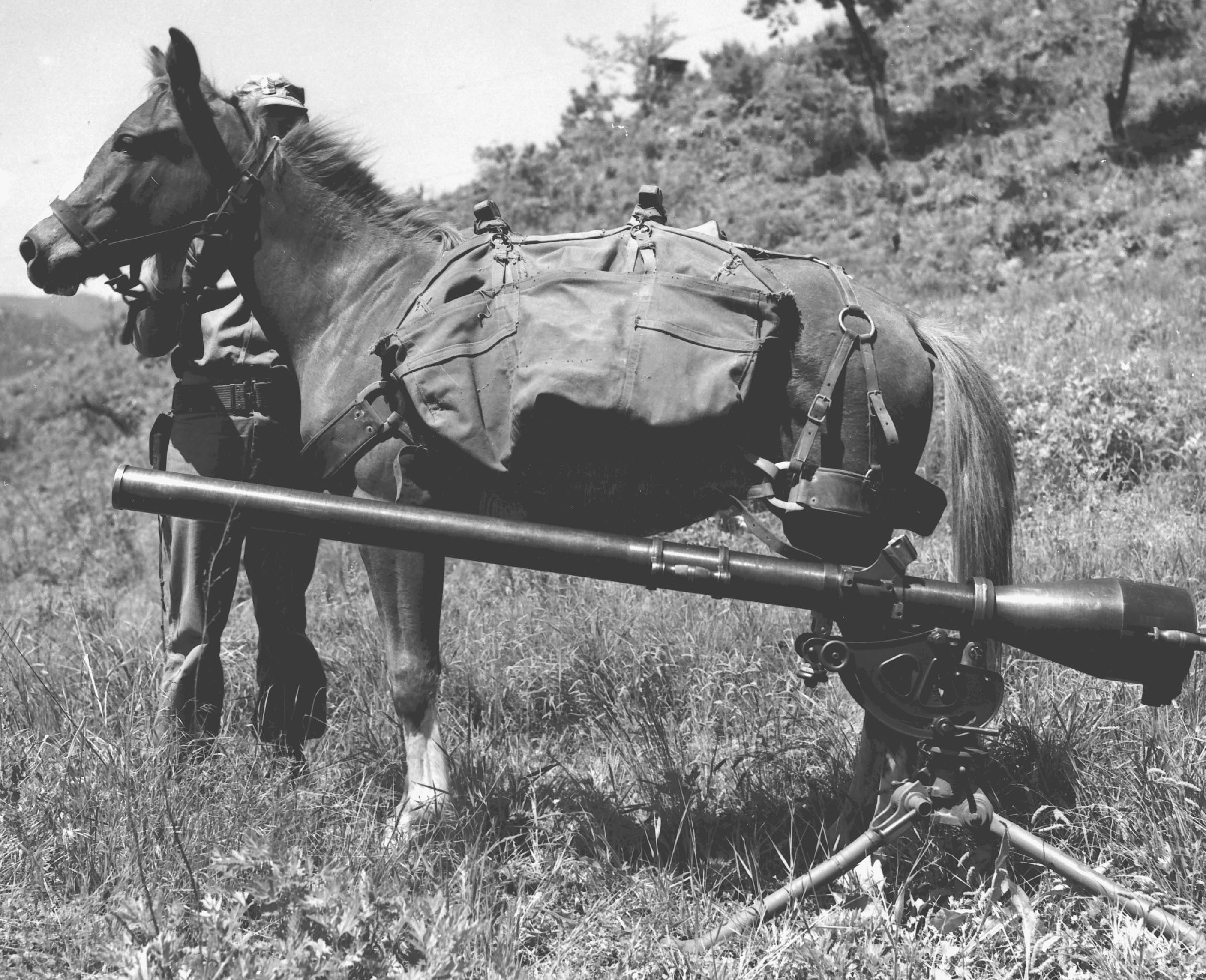 Sergeant Reckless a highly decorated US Marine Corps artillery horse in the Korean War pictured beside a 75mm recoilless rifle.